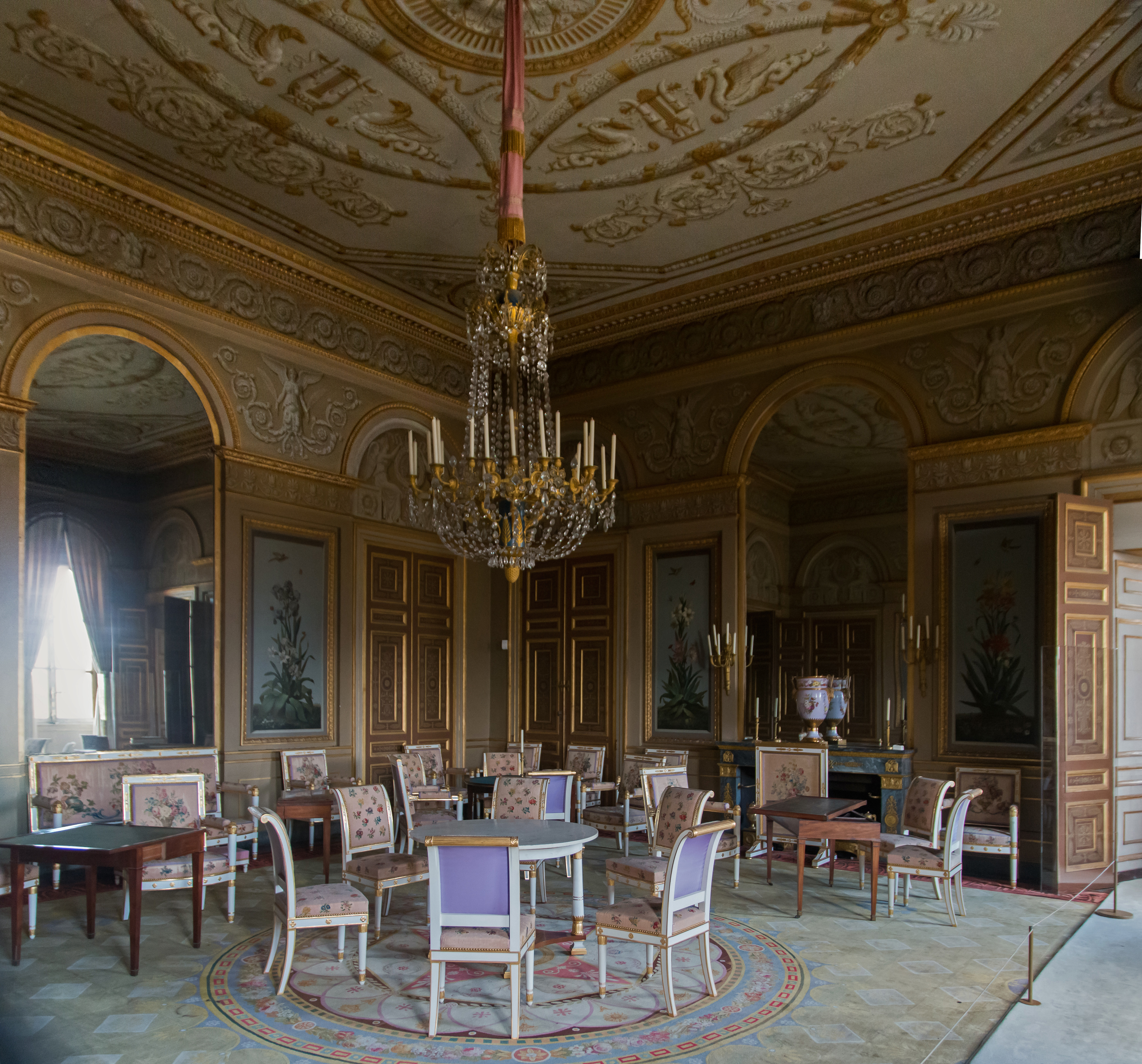 hall of the flovers..